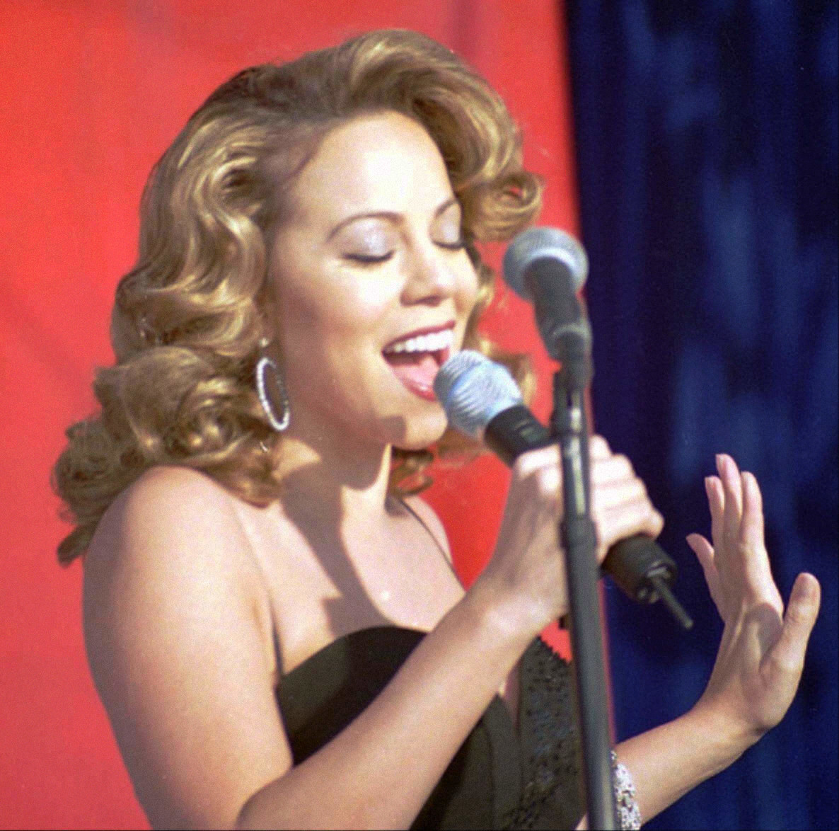 Mariah Carey at Edwards Air Force Base in Dec. 1998. Carey takes time out of her video shoot to sing for the crowd. Her video "I Still Believe" was taped on Dec. 11 and 12, 1998, at Edwards Air Force Base.